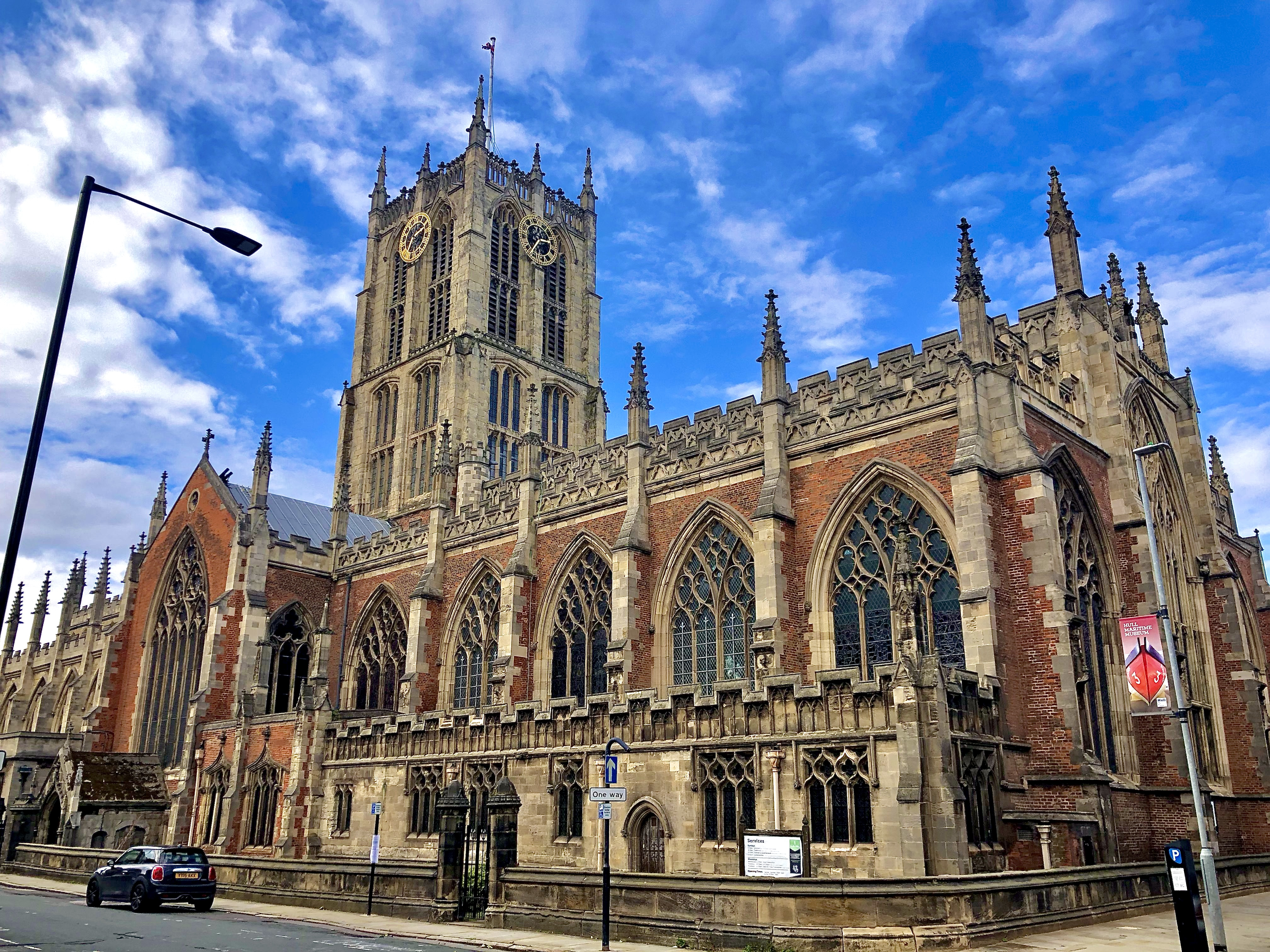 Hull Minster Wikidata has entry Q5886523 with data related to this item.